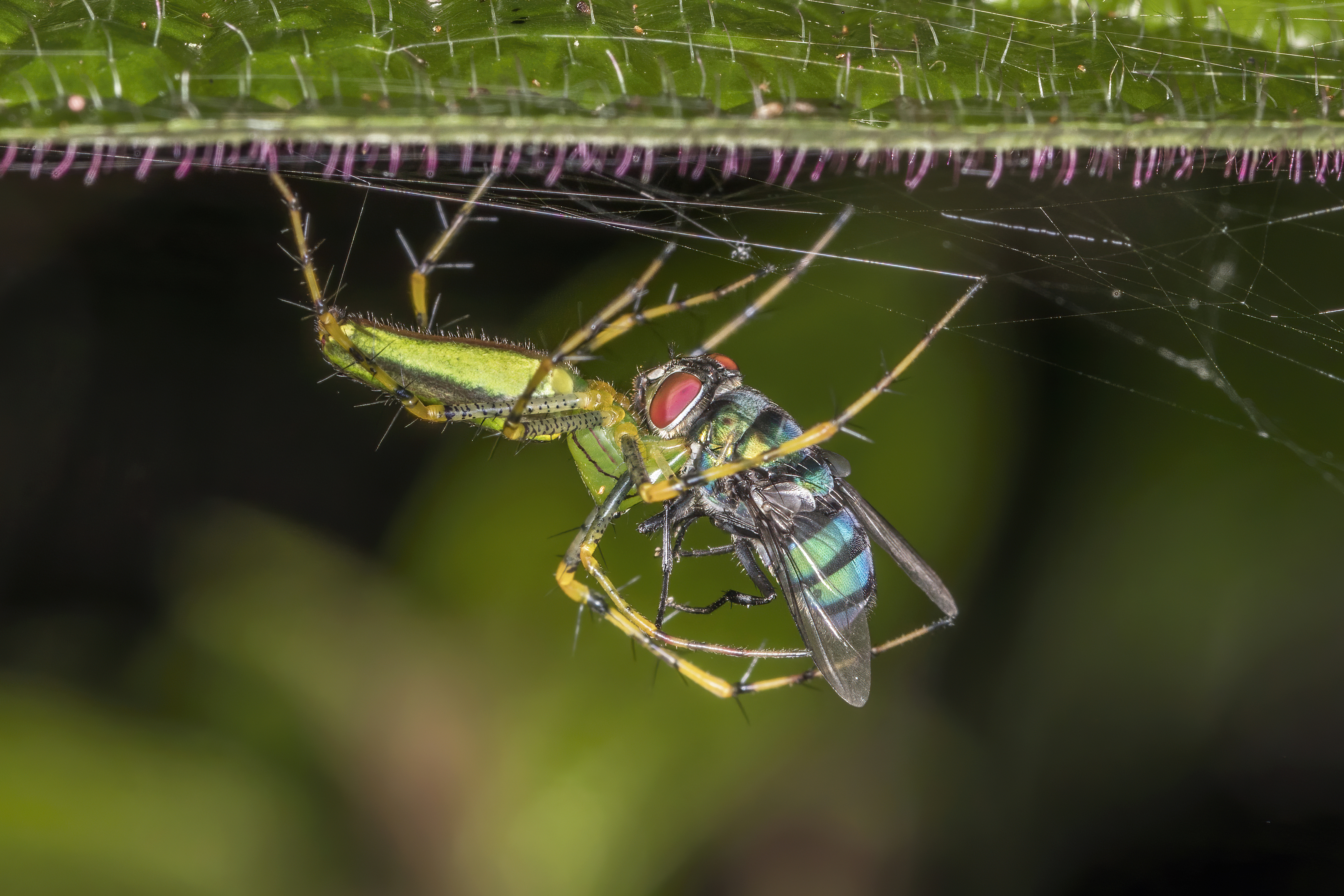 Malagasy green lynx spider (Peucetia lucasi) with prey, green bottle fly (Lucilia sp.), VOIMMA reserve, Andasibe, Madagascar. Previosuly identified as Malagasy green lynx spider (Peucetia madagascariensis)